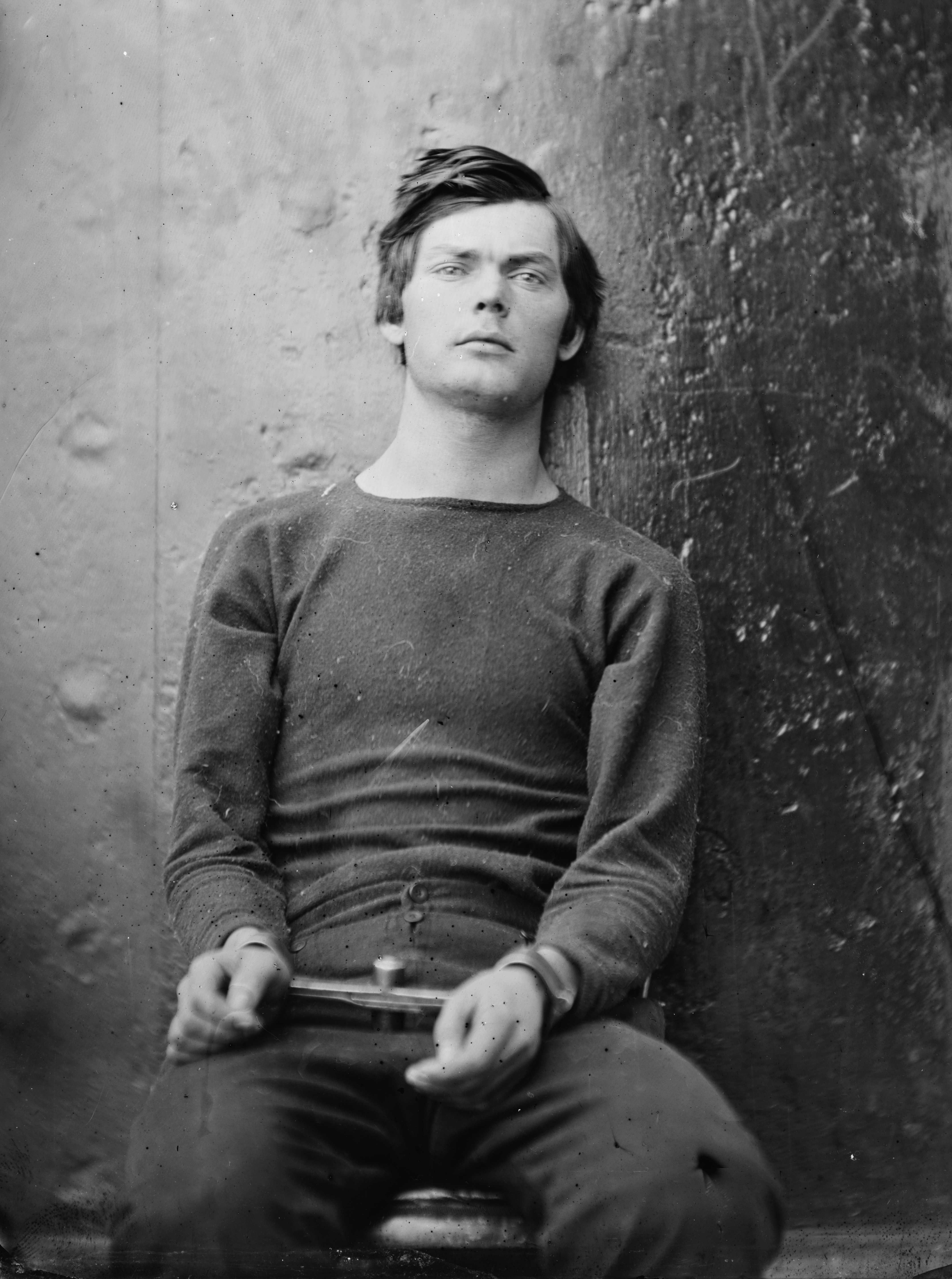 Lewis Powell (aka Lewis Payne), one of the conspirators in the Abraham Lincoln assassination. This photograph has background of dark metal, and was presumably taken on U.S.S. Saugus, where he was for a time confined.